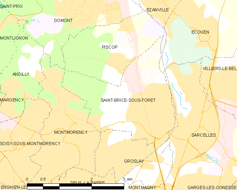 Map of French municipality Saint-Brice-sous-Forêt